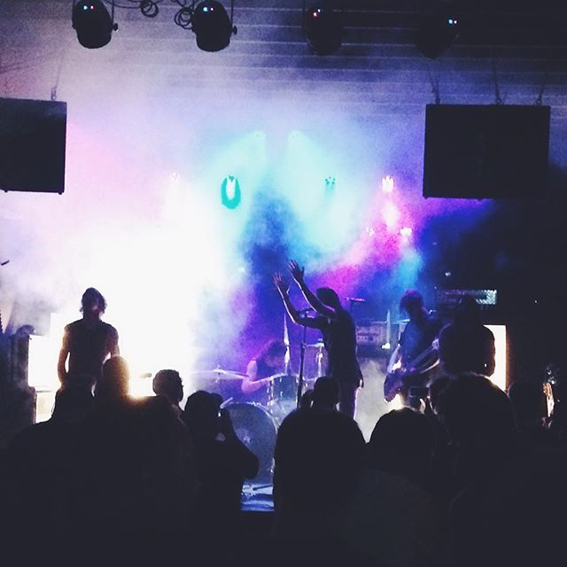 Sleepwave in Jacksonville